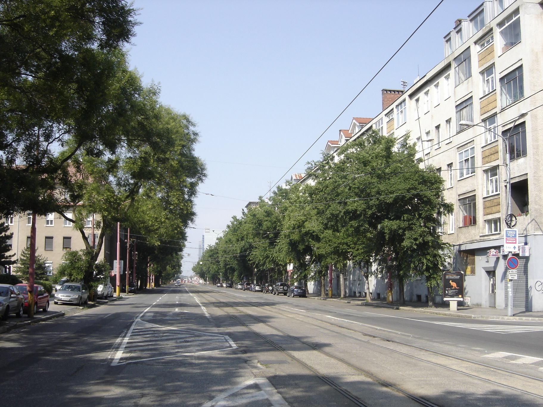 Vajnorská street - Bratislava, Slovakia